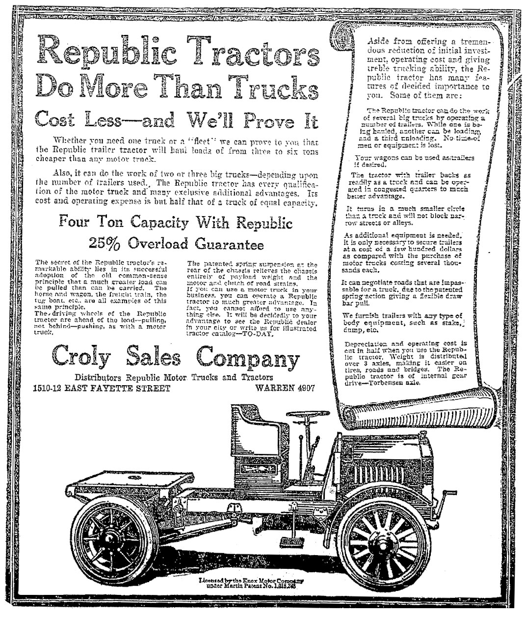 Republic Tractors Advertisement